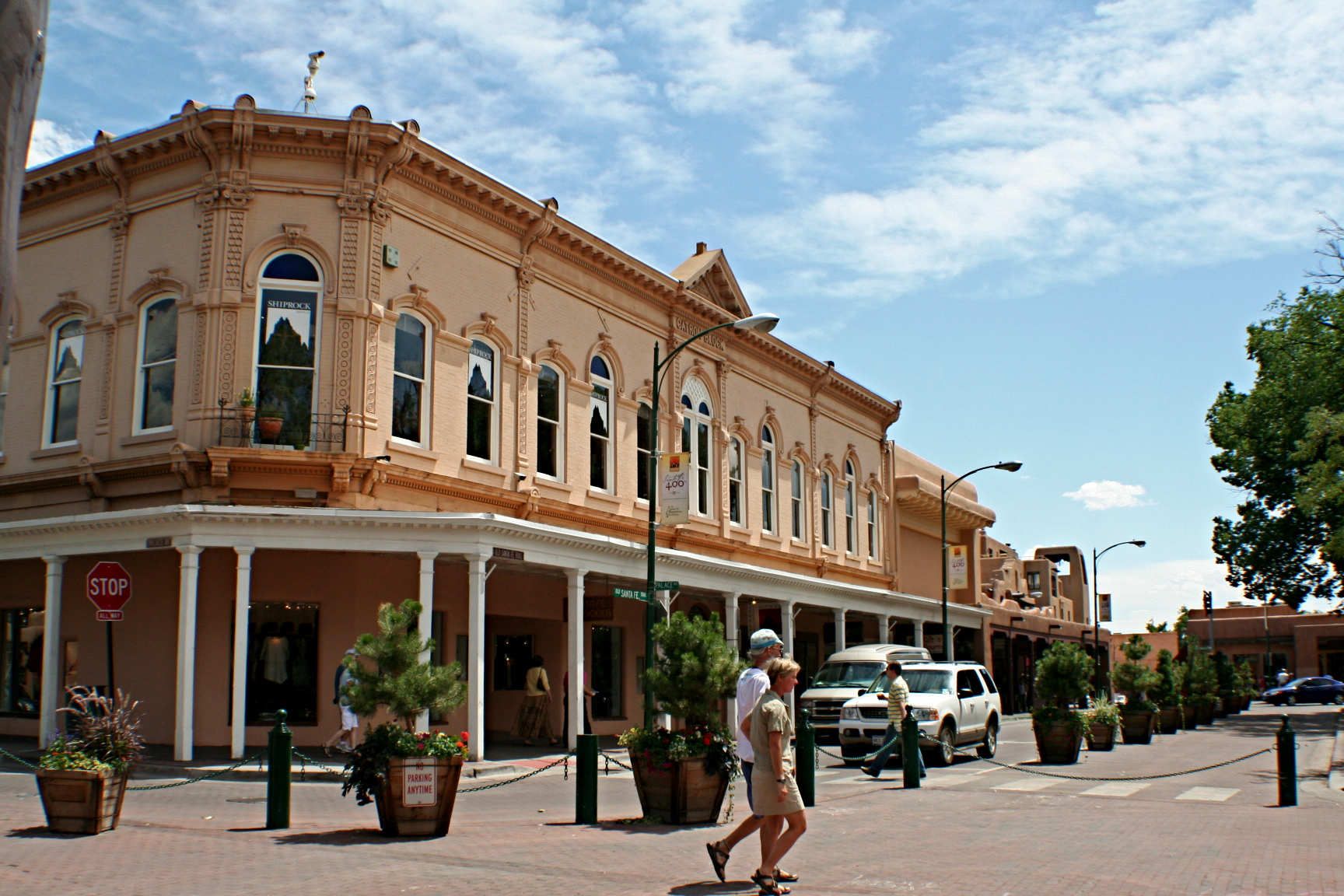 Off the Plaza in Santa Fe, New Mexico